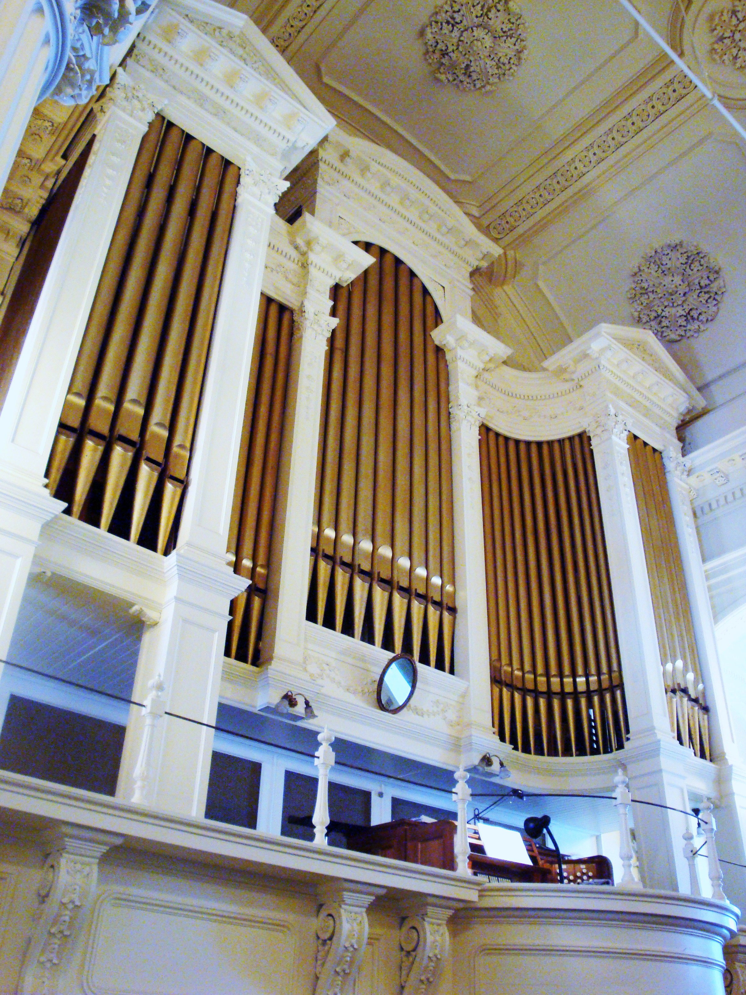 Æolian-Skinner organ in Arlington Street Church of Boston, Massachusetts. March 2009 photo by John Stephen Dwyer